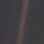 Cropped from ‘Pale Blue Dot’, see below.